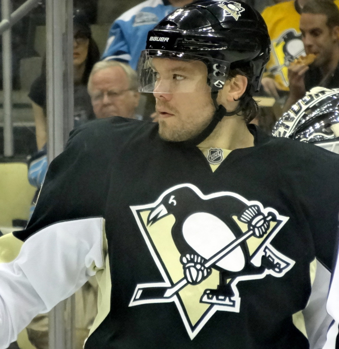 Pittsburgh Penguins defenseman Douglas Murray during round one, game five of the 2013 Stanley Cup playoffs against the New York Islanders, May 9, 2013 at Consol Energy Center.